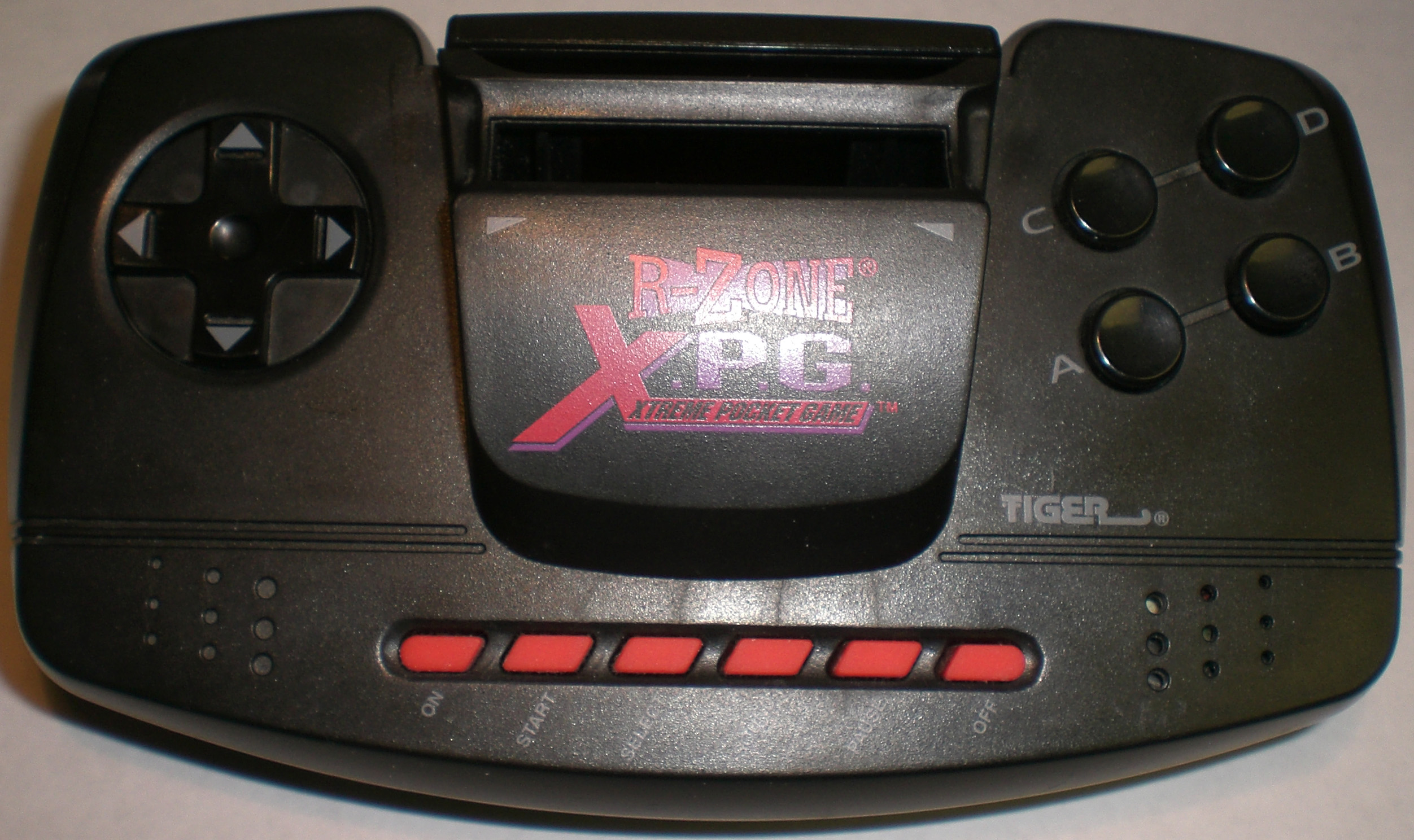 Alex Kirkland, , available for use by anyone desiring to do so